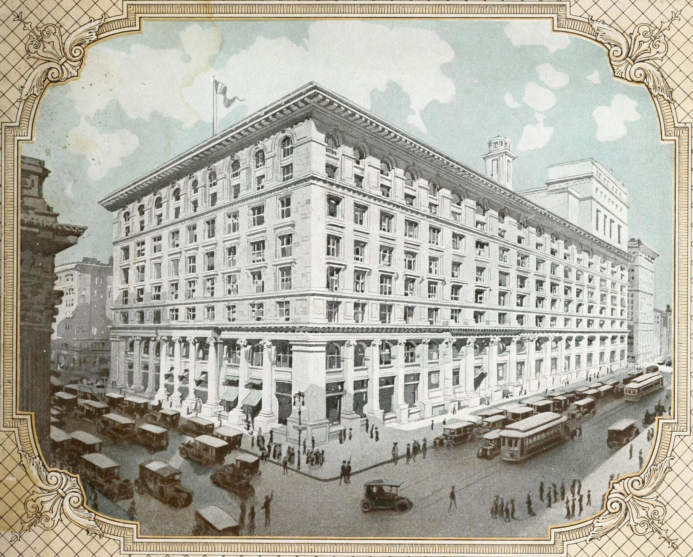 Cover page of B. Altman & Co.'s Fall and Winter catalogue number one hundred ten, for 1914-15.